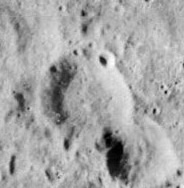 Volkov, on the moon.